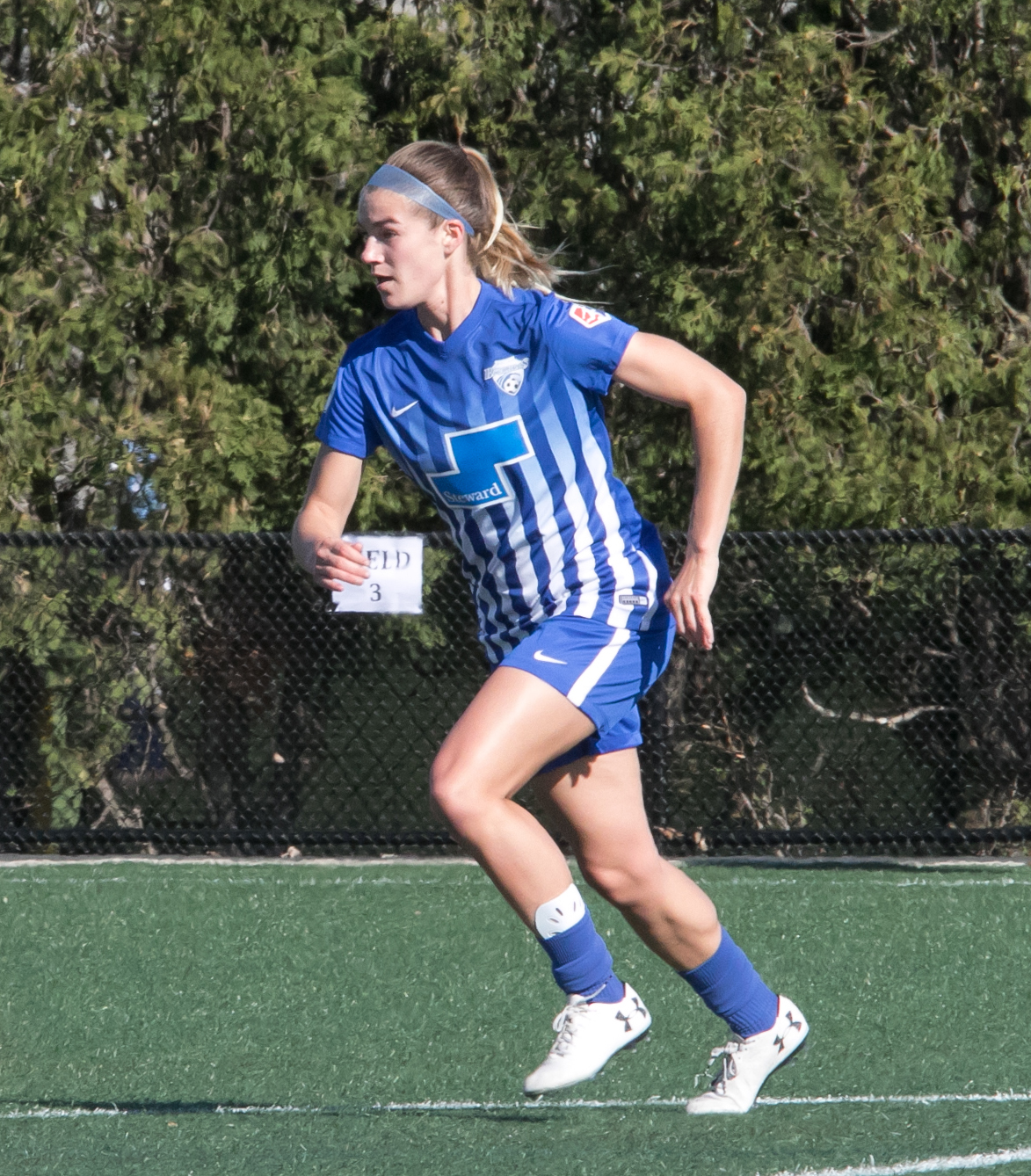 Christen Westphal playing for the Boston Breakers on April 23, 2017.